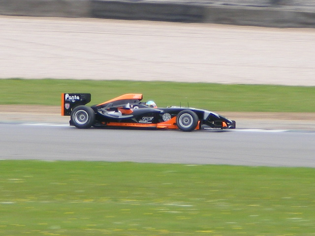 A demonstration of the Superleague Formula car at Donington Park in 2008.